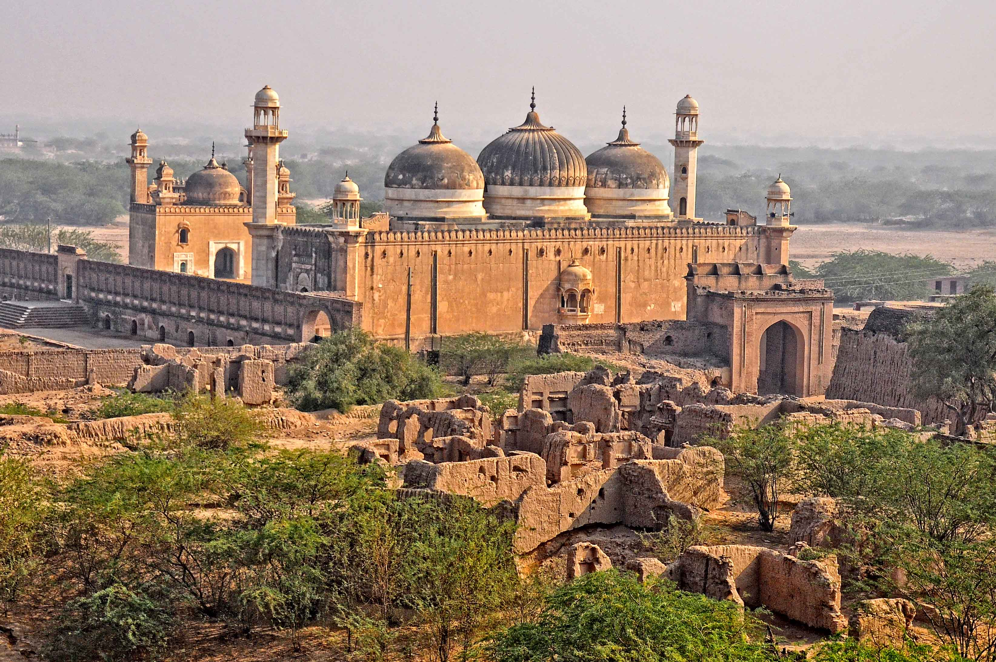 Abbasi Mosque This is a photo of a monument in Pakistan identified as the PB-U-3